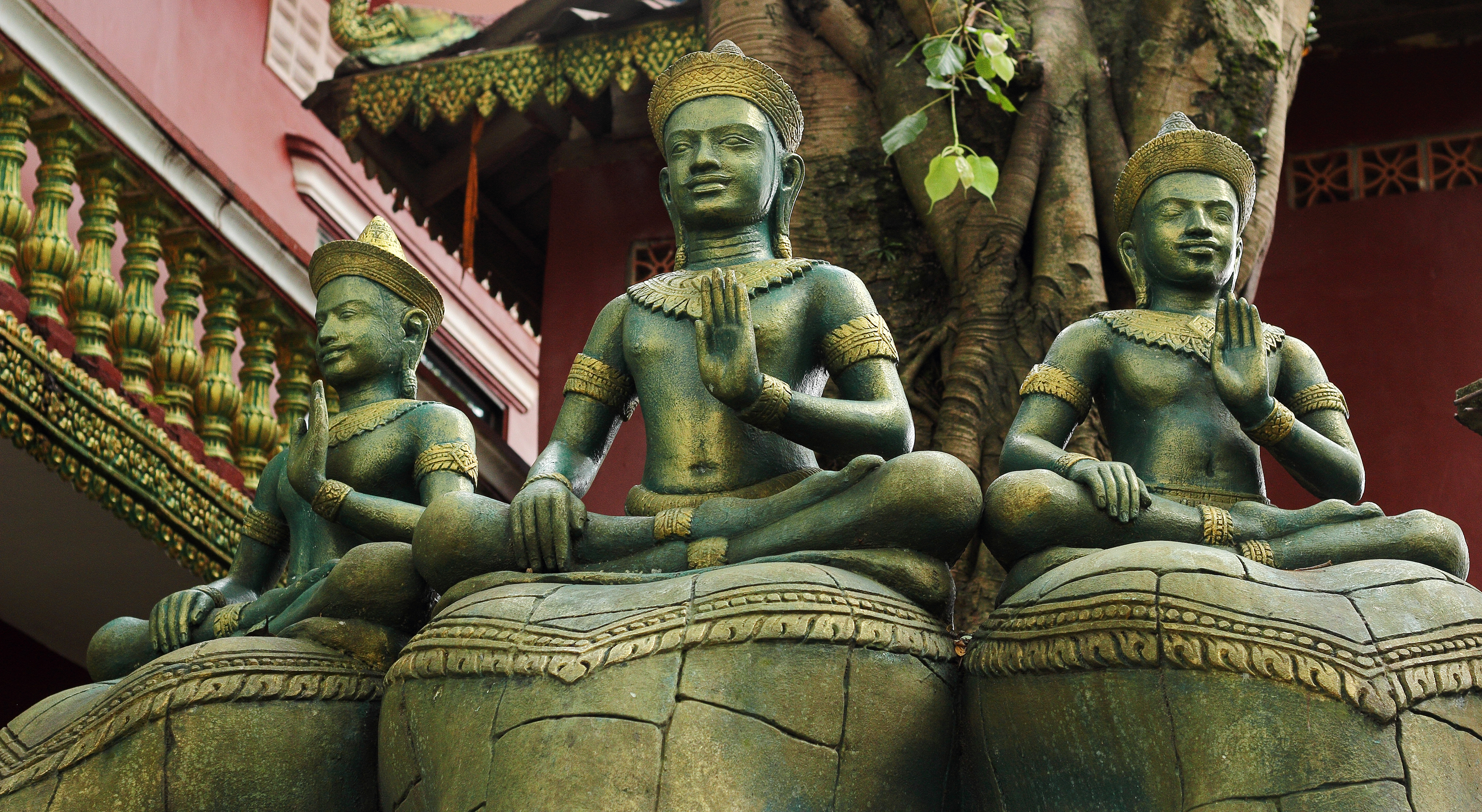 Cambodia, Sihanoukville. Leu Pagoda. ភាសាខ្មែរ: វត្តលើ